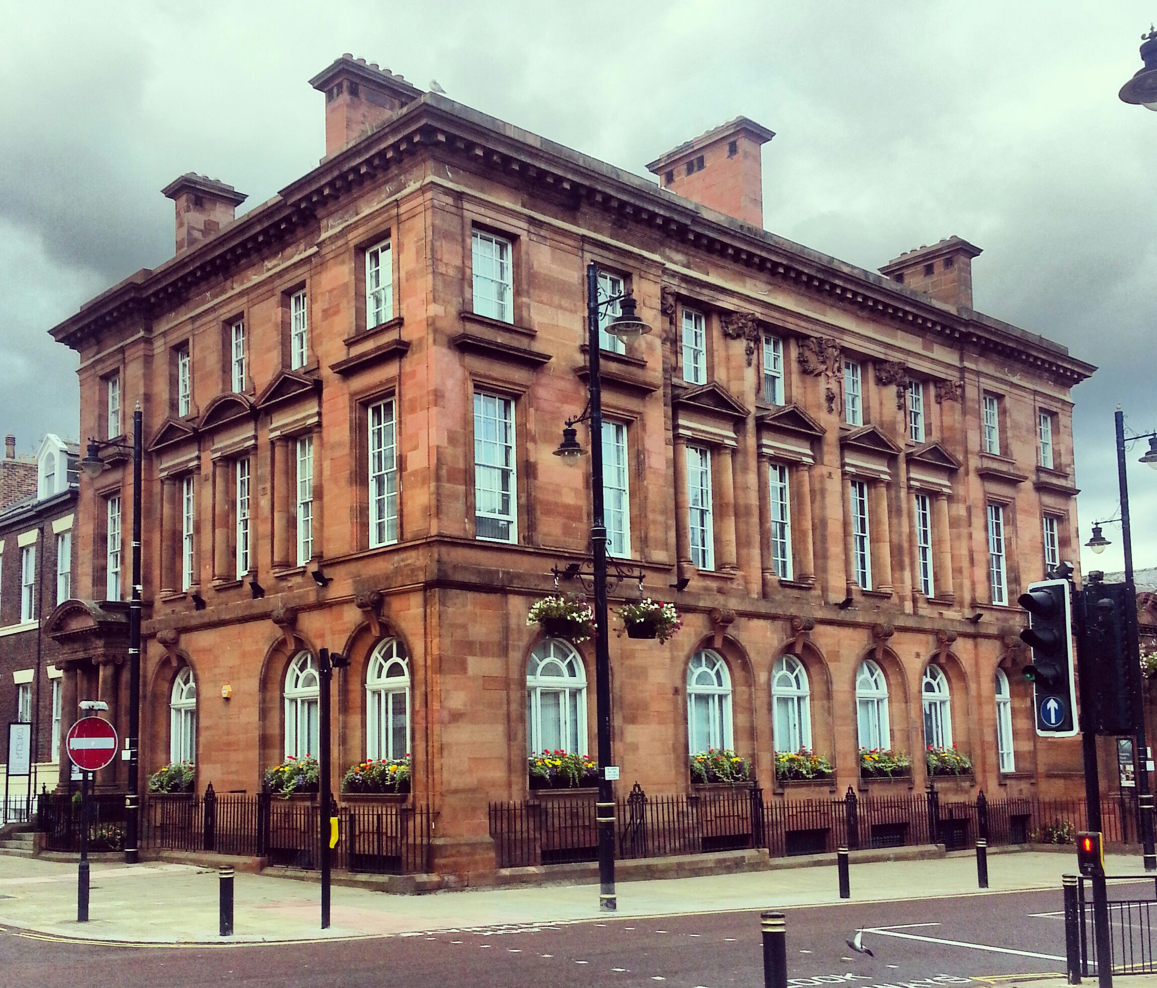 Photo of Hawksley House